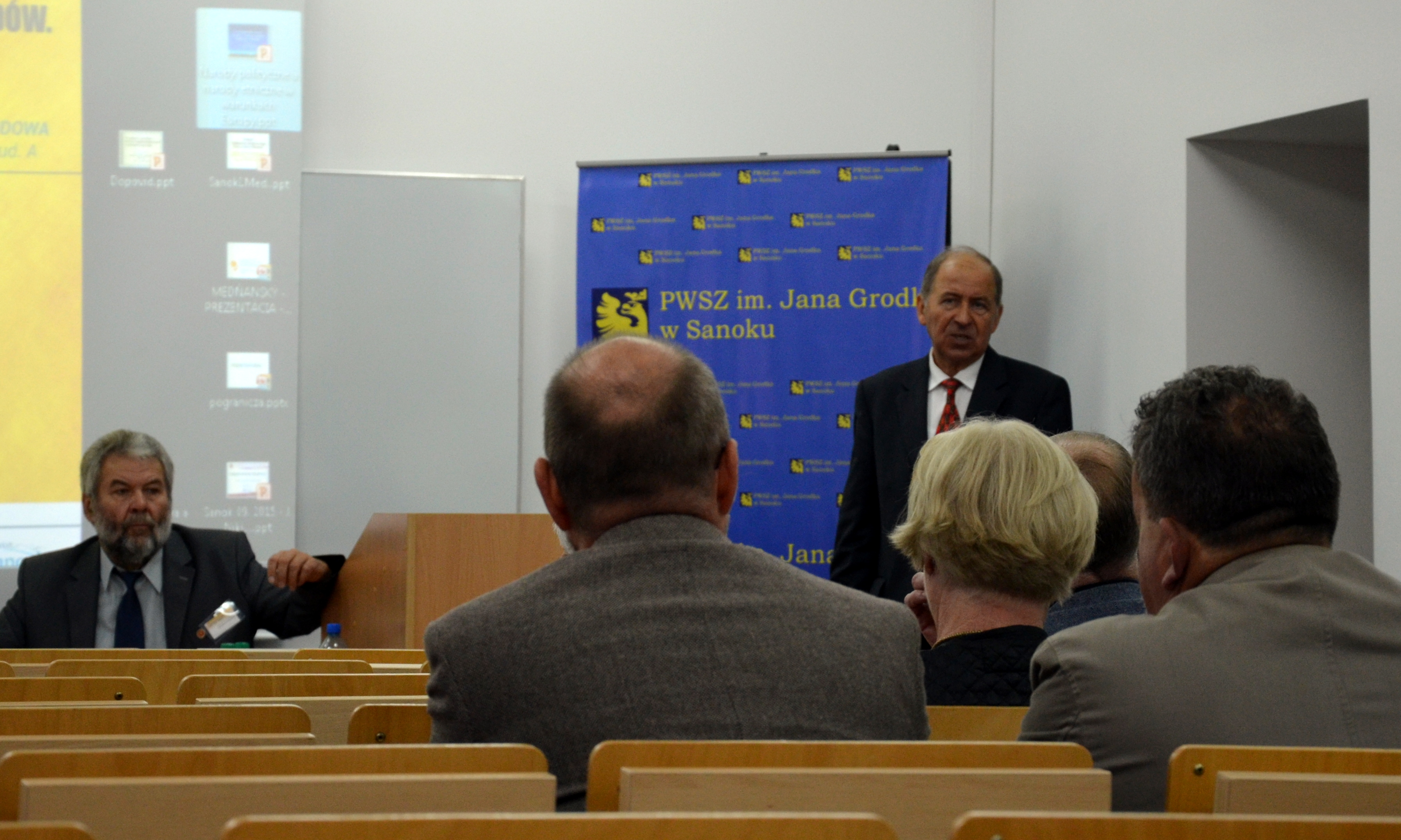 prof Andrzej Sadowski